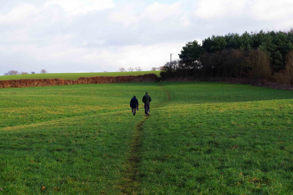 North Worcestershire Path - walkers in field, near Caunsall, Worcs